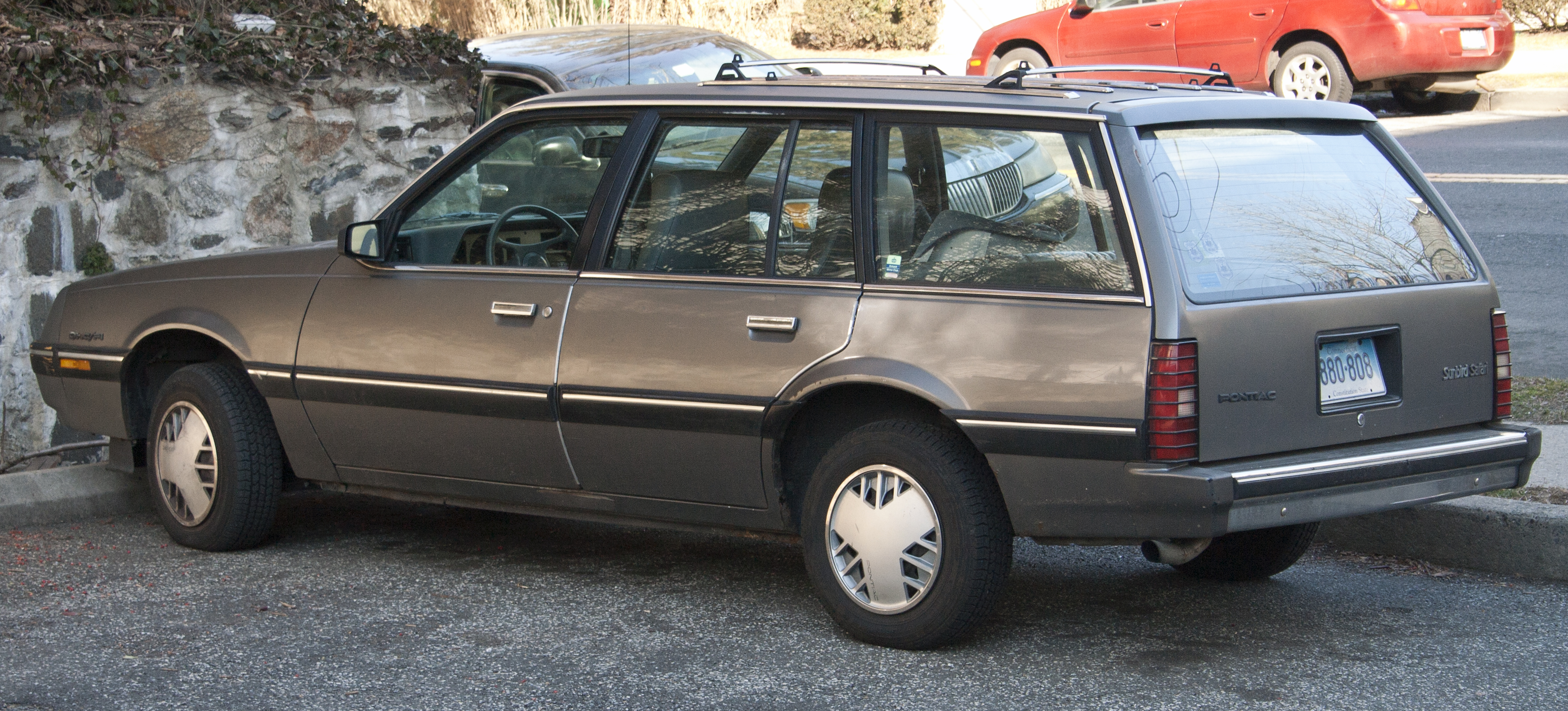 1987 Pontiac Sunbird Safari, base version. Equipped with a 2.0 OHC four-cylinder and slushbox of course.